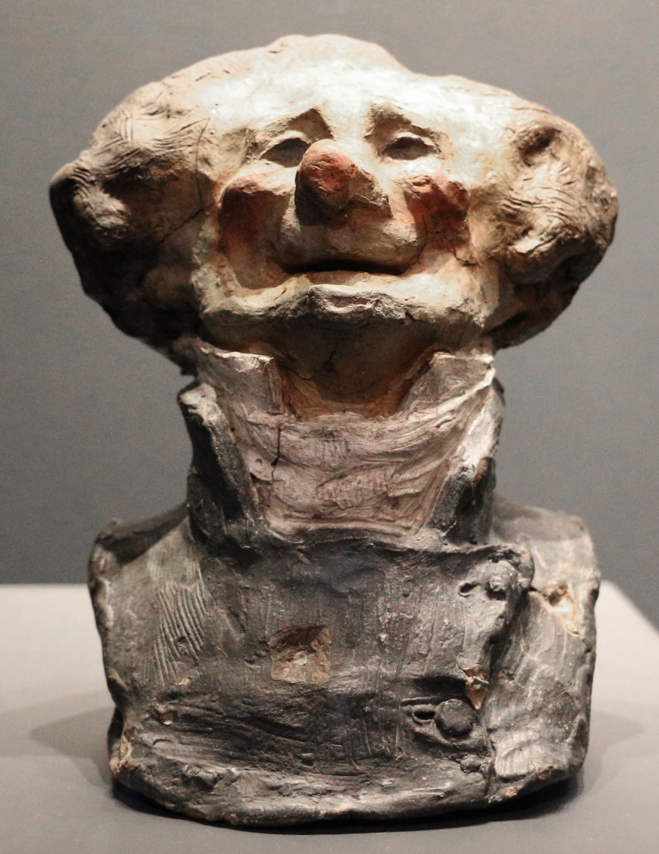 Célébrités du Juste Milieu